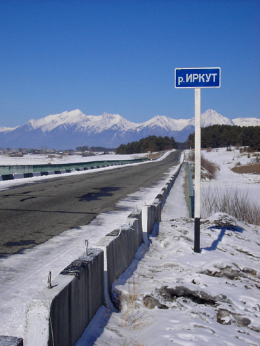 Irkut River sign near the rural locality of Zaktuy in Tunkinsky District of the Buryat Republic, Russia.